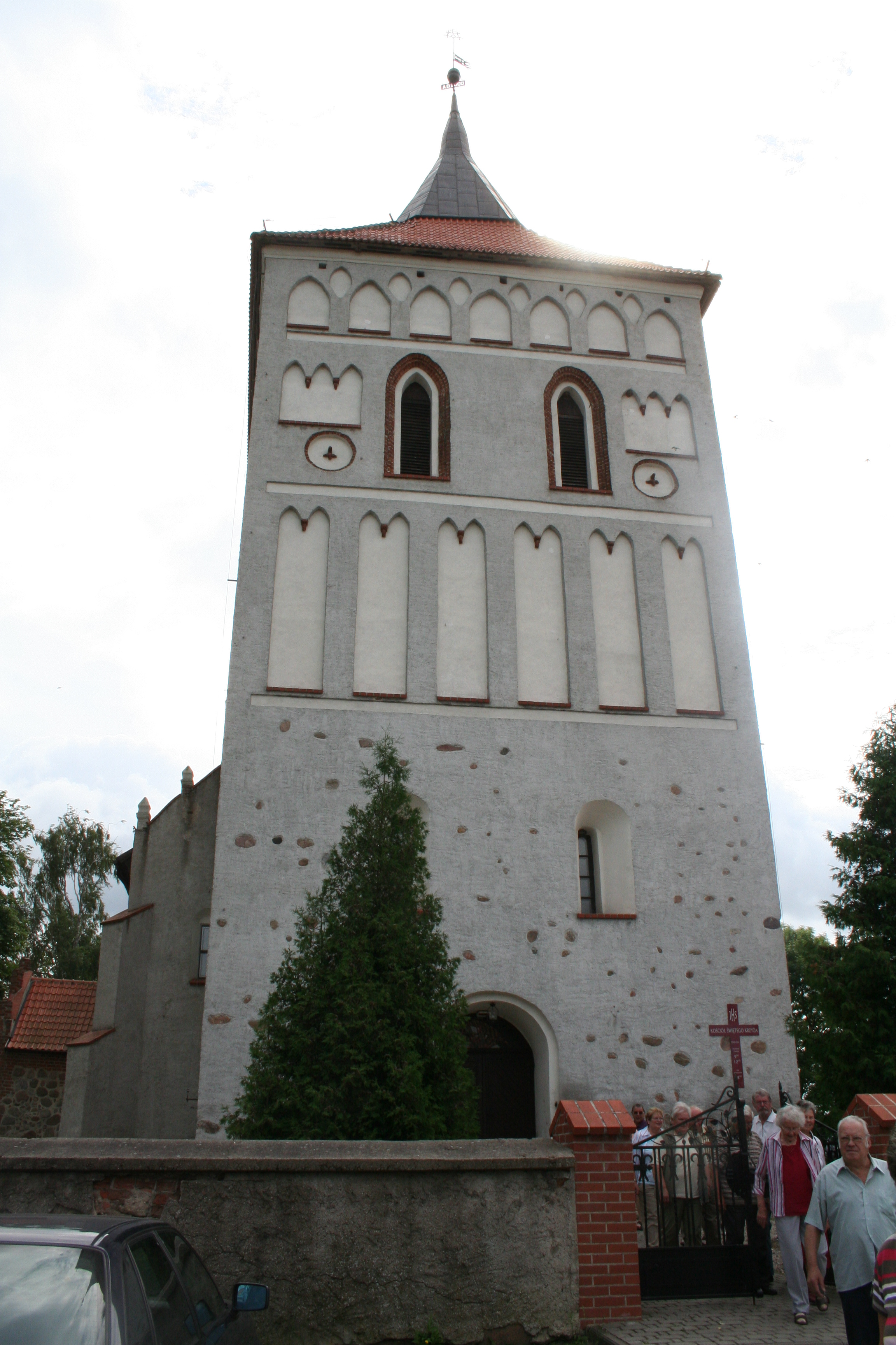 Holy Cross church in Szestno